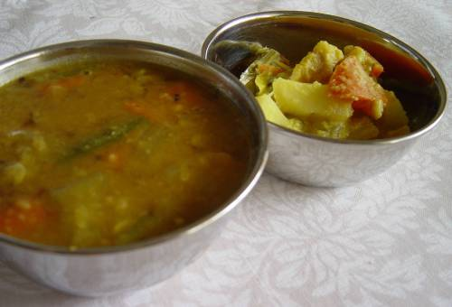 2 delicious side dishes of South Asian/Indian food Licensing